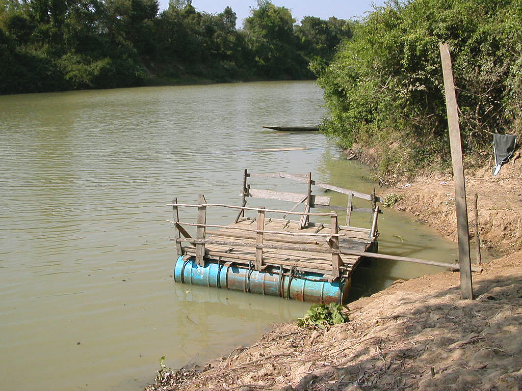 Rickety ferry over the Chi river in Surin province, Thailand.